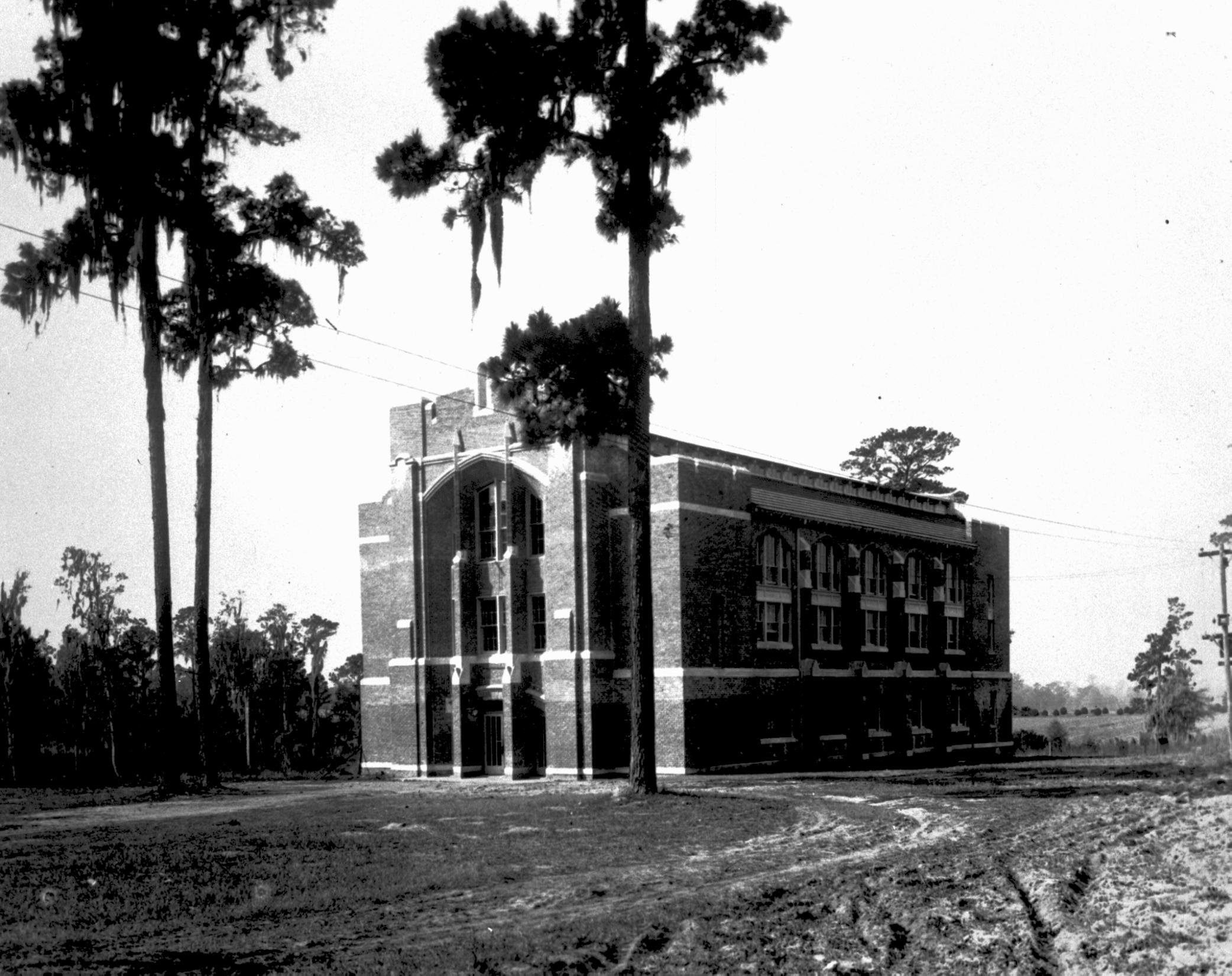 A historic photo of Ustler Hall